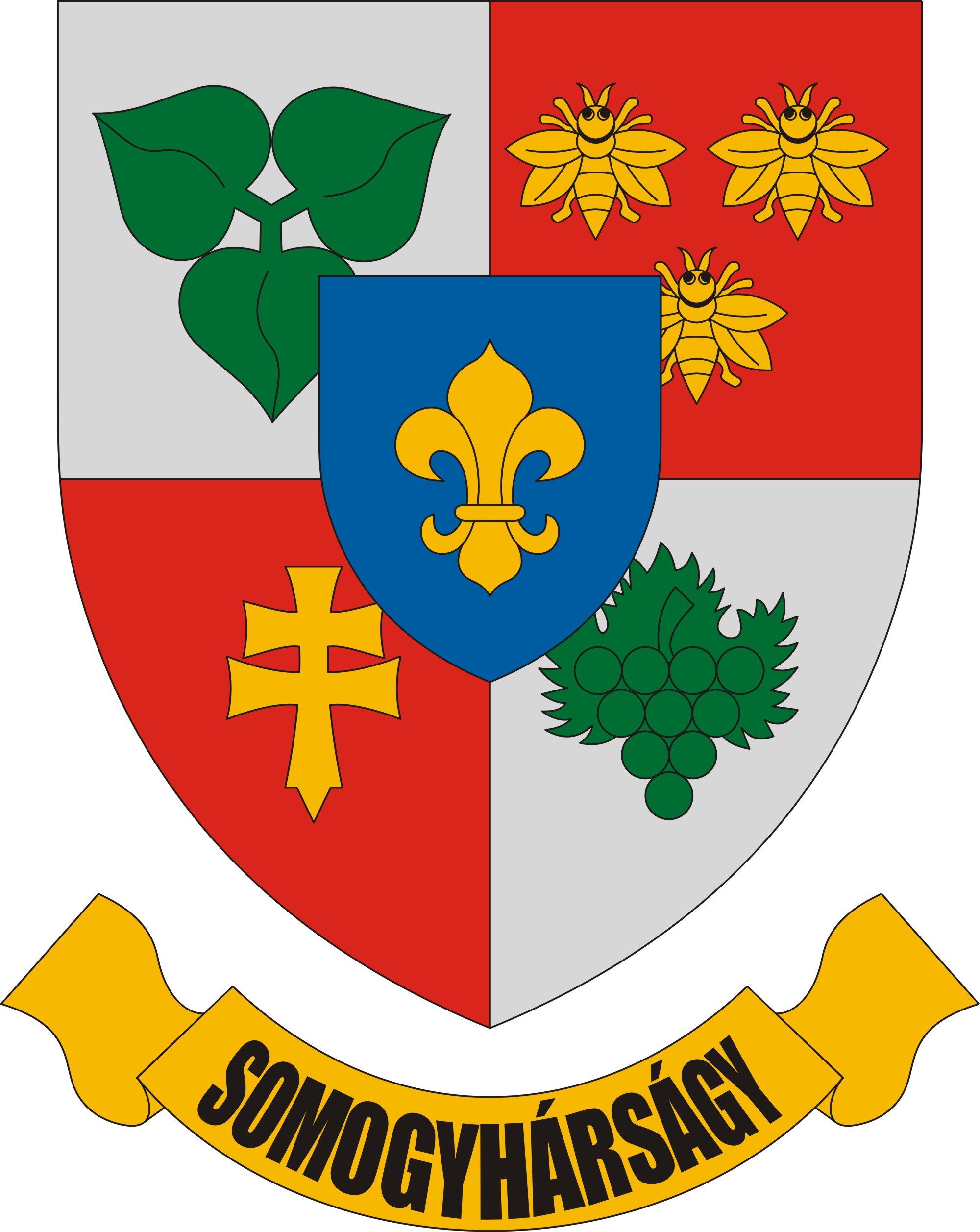 Somogyhárságy, coat of arms